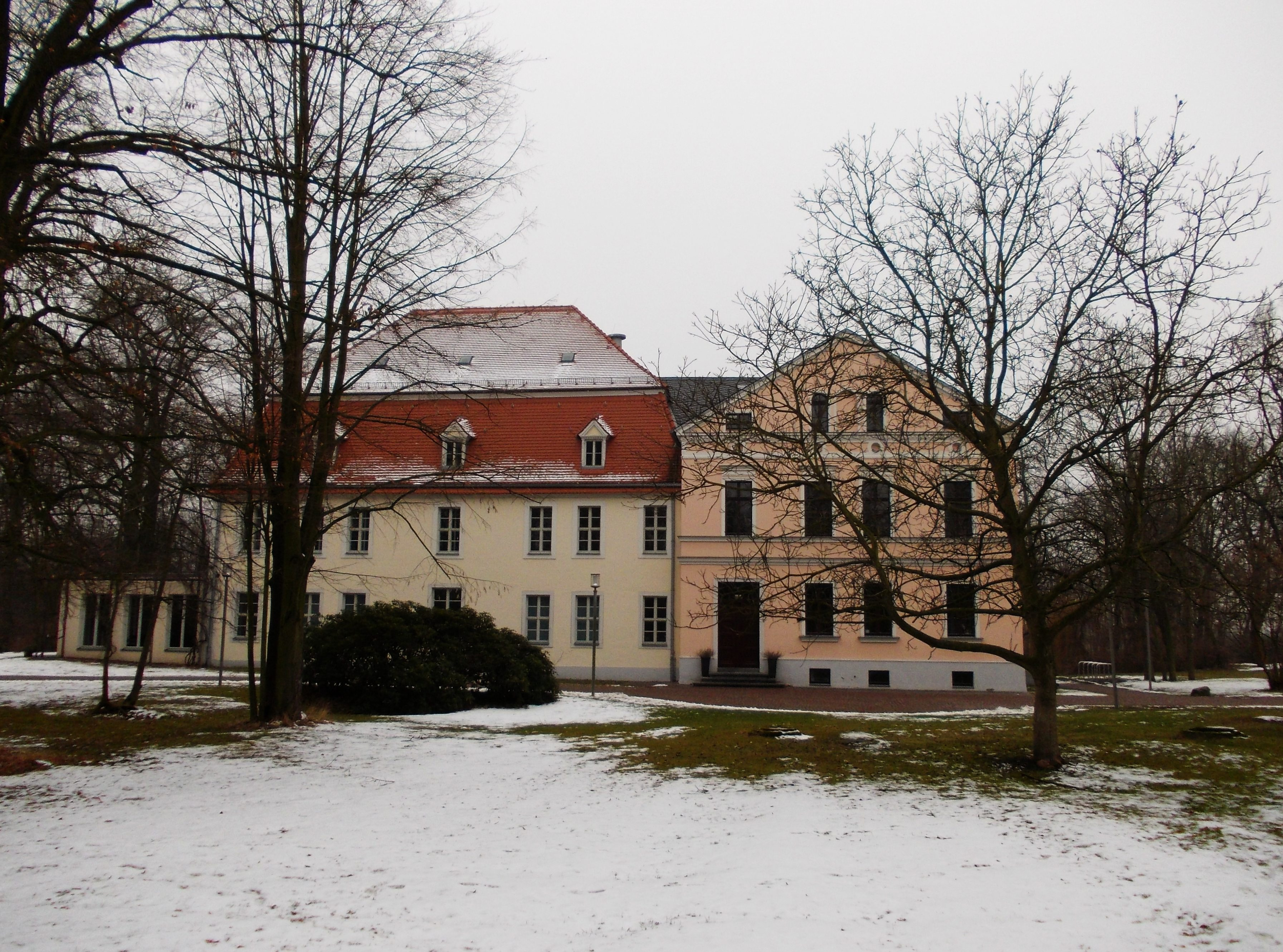 Manor house of the Upper estate in Zschortau (Rackwitz, Nordsachsen district, Saxony)